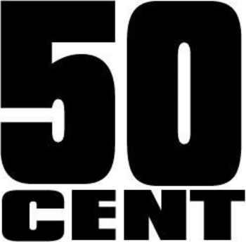 fiddylogo